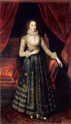 Vere Egerton by Robert Peake, 1619